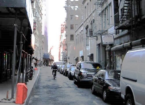 Photo of Ann Street in Manhattan.